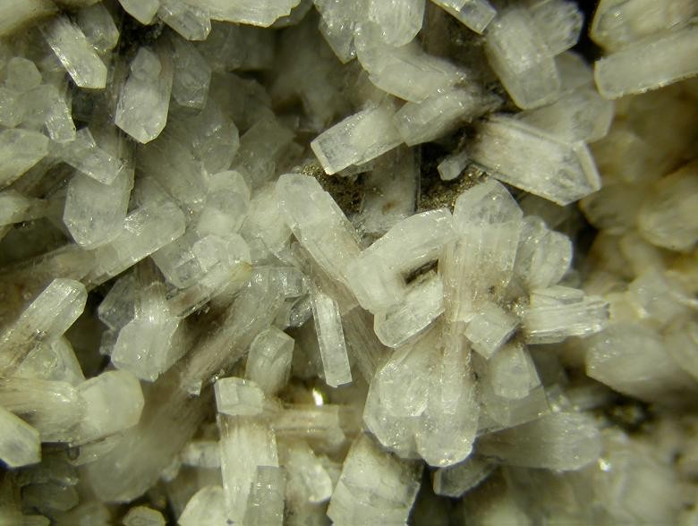 Edingtonite Locality: Ice River Alkaline Complex, Golden Mining Division, British Columbia, Canada (Locality at ) Field of view 9 mm. Specimen and photo Leon Hupperichs.